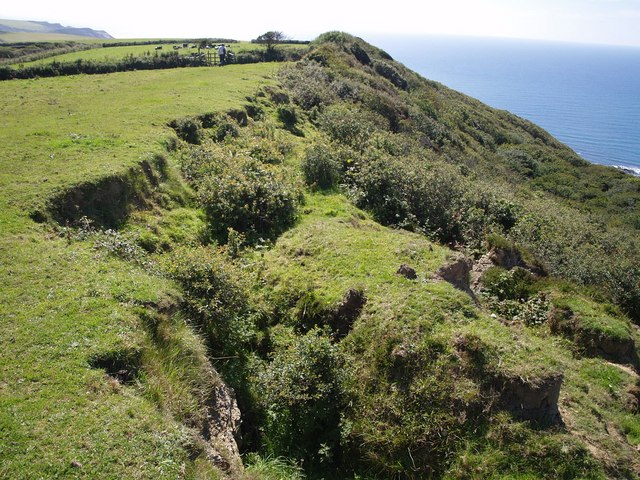 Slippage at Dizzard A minor landslip at the edge of the coastal slope (it can't really be called a cliff) beside the coastal path as it passes West Dizzard.